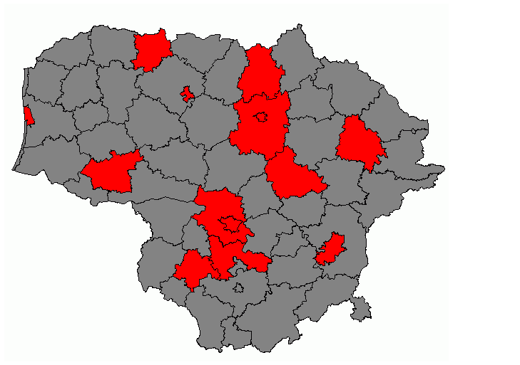 Comfirmed swine influenza cases in Lithuanian districts: Deaths Confirmed cases Suspected cases